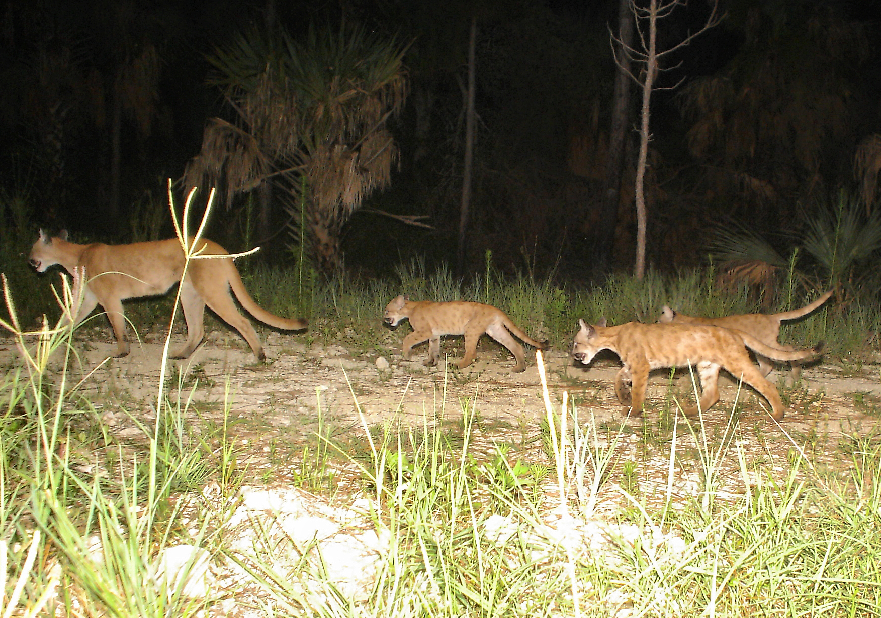 Credit: David Shindle, Conservancy of Southwest Florida